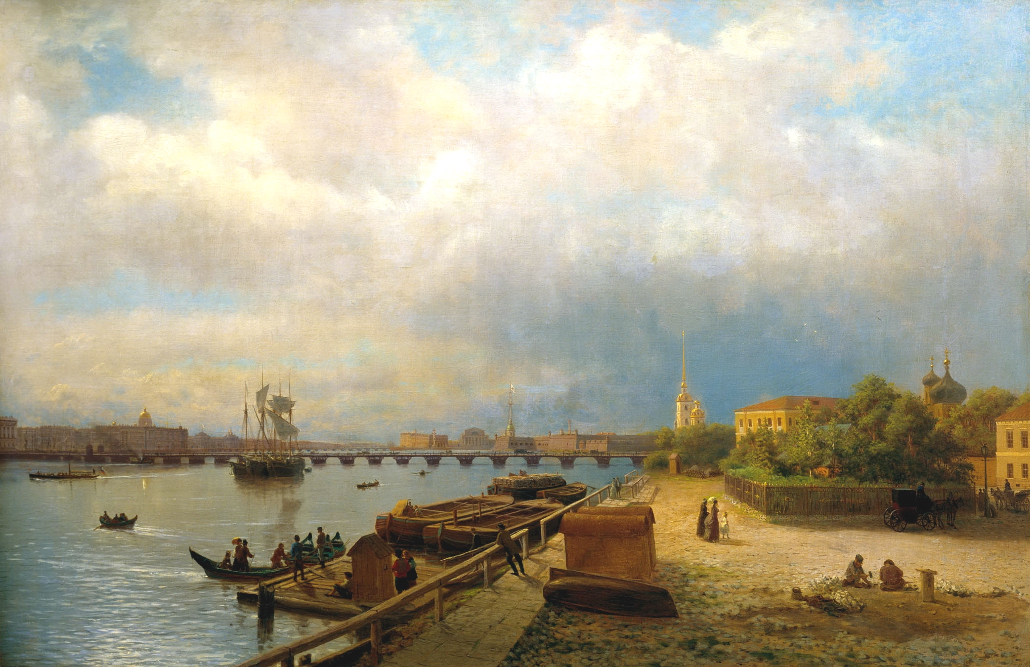 View of the Neva River and Peter & Paul Embankment with the cabin of Peter the Great, 1859. Oil on canvas. 117 x 178 cm. The State Russian Museum, Saint Petersburg